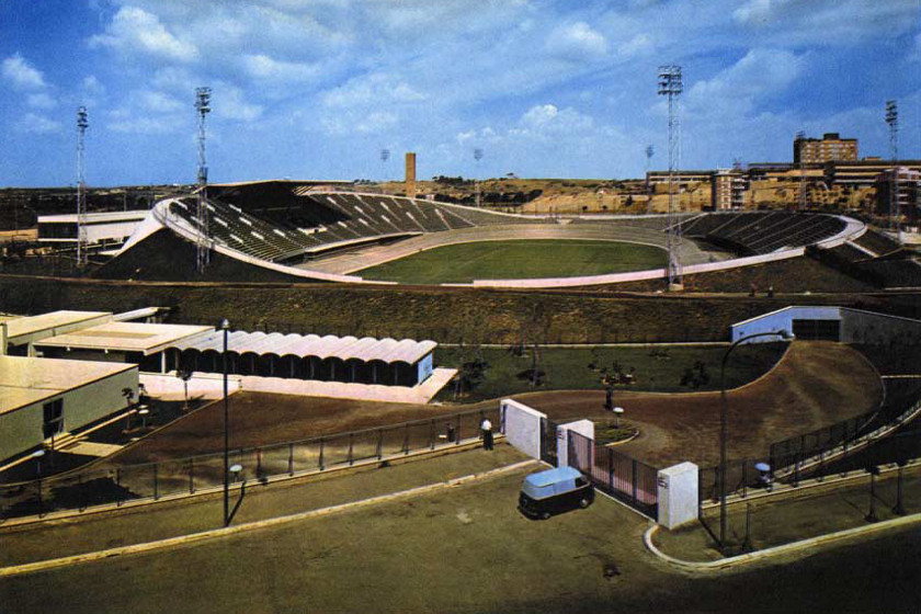 The Olympic Velodrome in Rome, built for the 17th Summer Olympics which took place in 1960 in Rome. The Velodrome hosted track cycling and field hockey events. It operated until 1968. In that year it was discontinued because of problems to its foundations. It remained inactive for 40 years until its demolition by implosion on 24 July 2008.